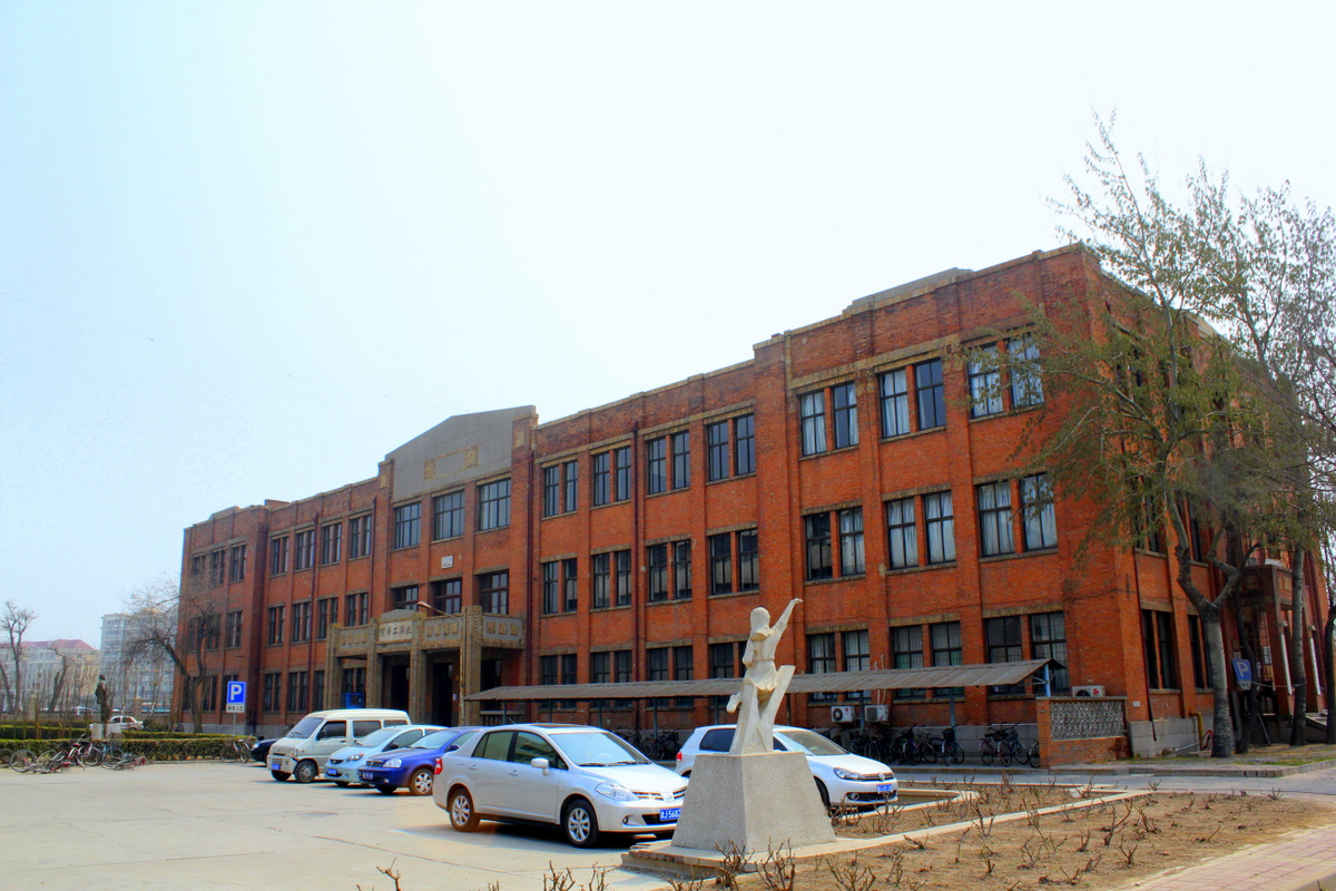 the former southern building of National Peiyang University. nowadays, the 3rd building of HEBUT